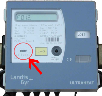 Digitale Warmtemeter met optische poort